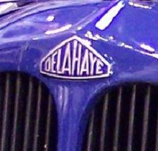 Subject: Delahaye mark Author: Luc106 Date:21 July 2007 This picture comes from another Commons' picture: Image:Delahaye 135 M Competition blue vl TCE.jpg. This new picture was made to highlight the Delahaye mark. I release all rights in the public domain.